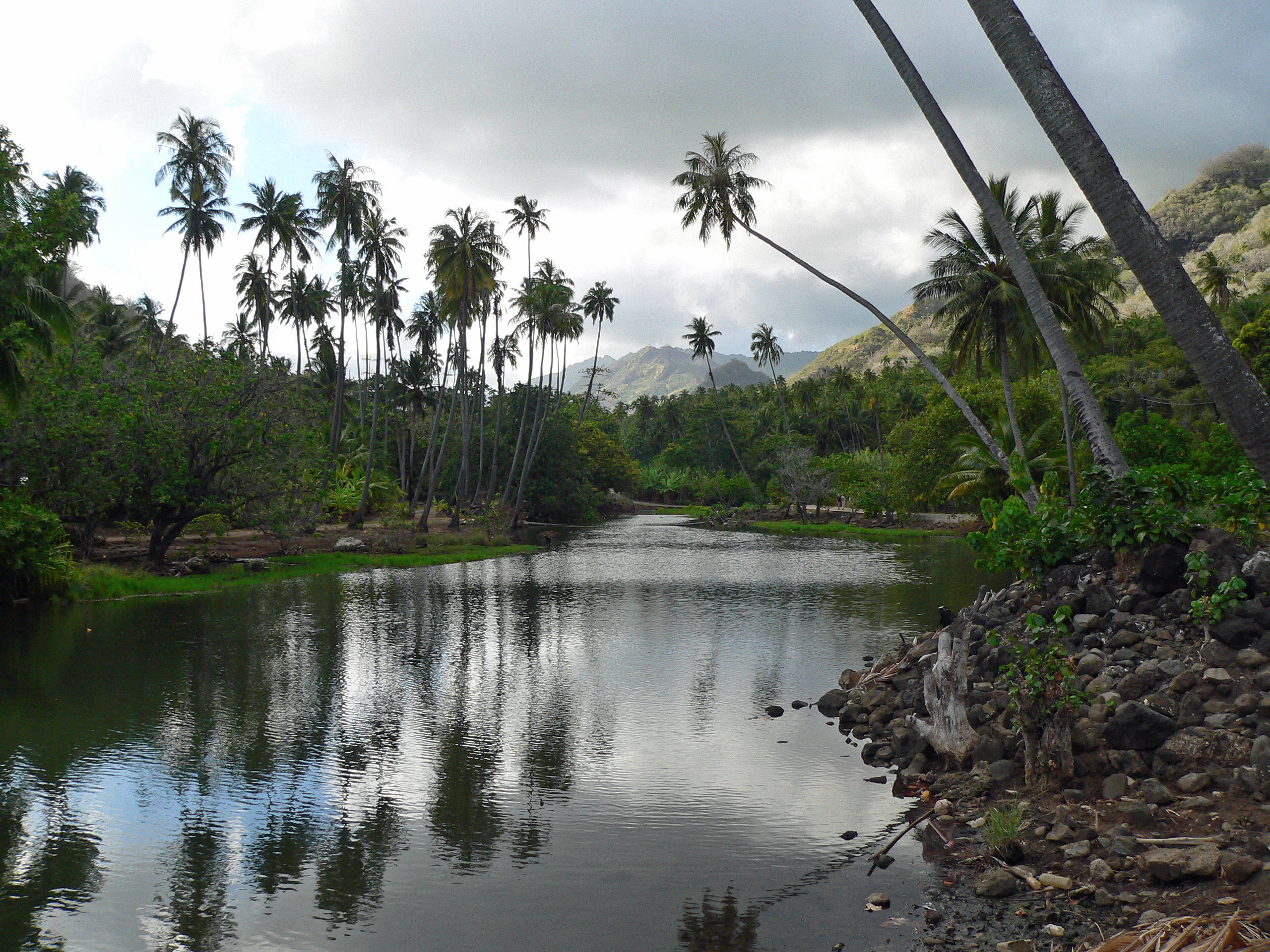 Taipivai Valley and stream — on Nuku Hiva island, of the Marquesas Islands archipelago in French Polynesia.